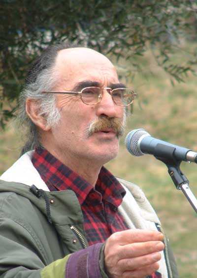 Franci Blaskovic, Croatia, rocker, writer, ....